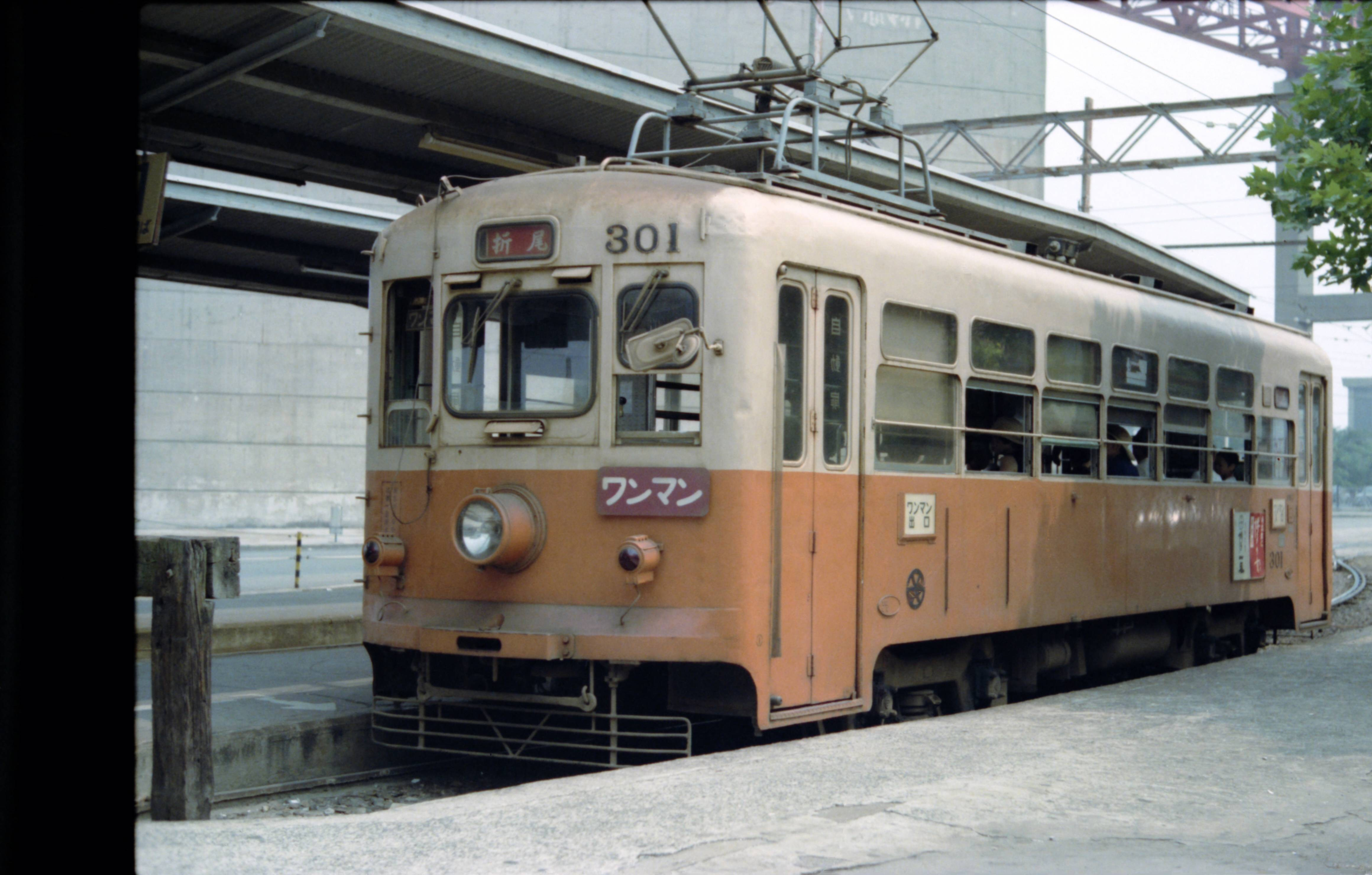 Nishi-Nippon-Railway Co.Ltd CityTram